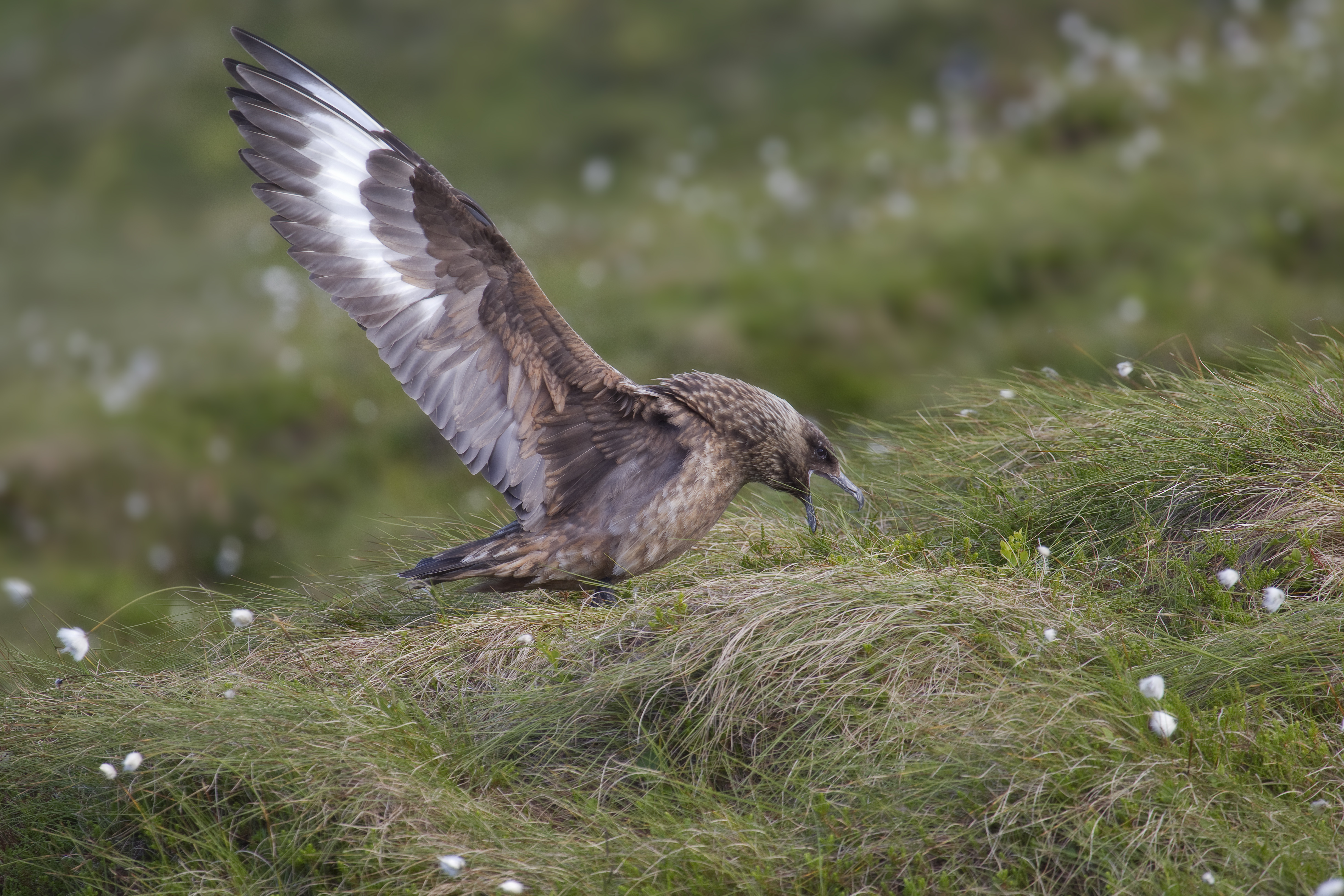 Great Skua